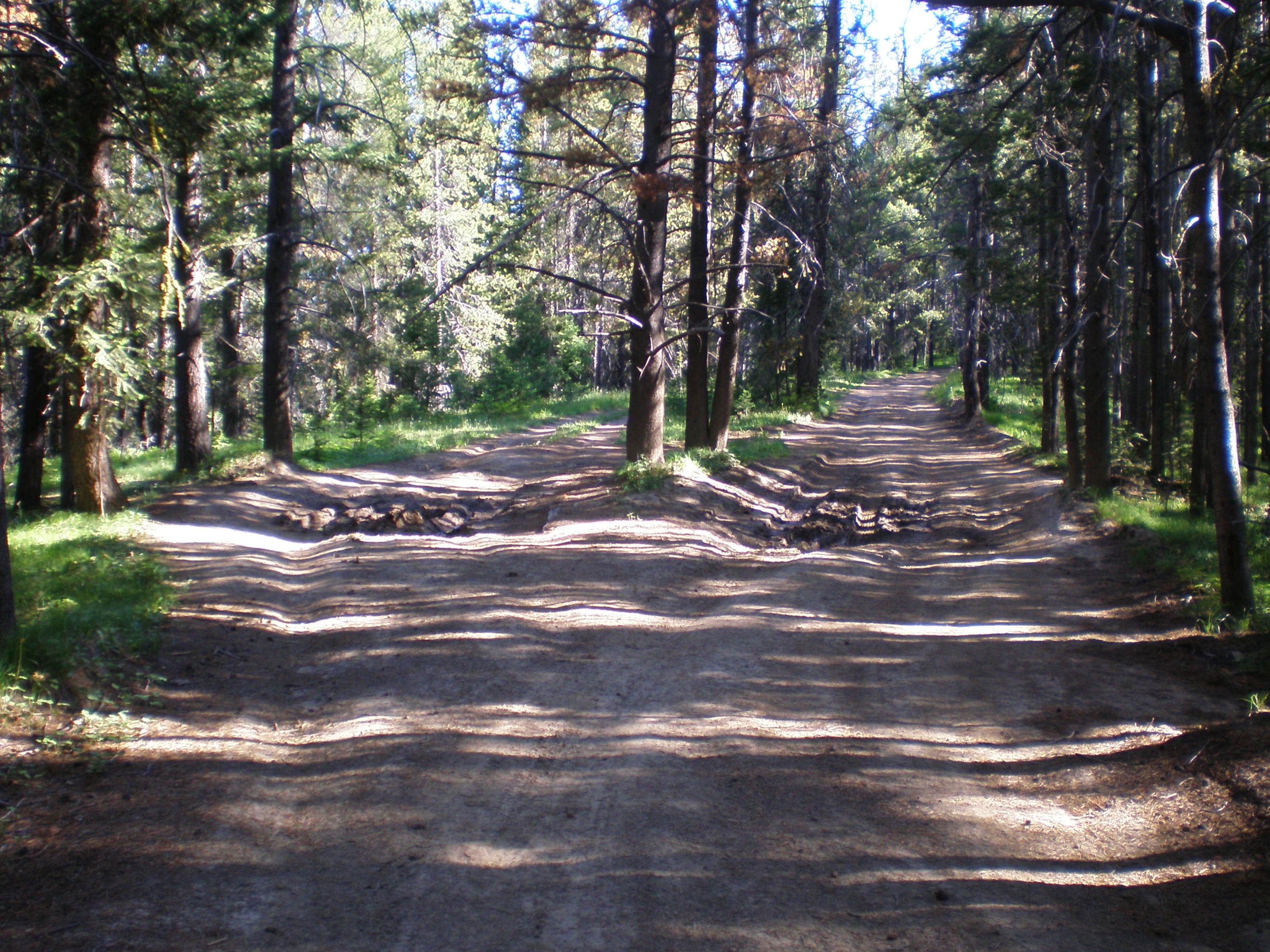 This road sits directly on the Continental Divide - mud on the left side oozes toward the Pacific Ocean, on the right side toward the Atlantic